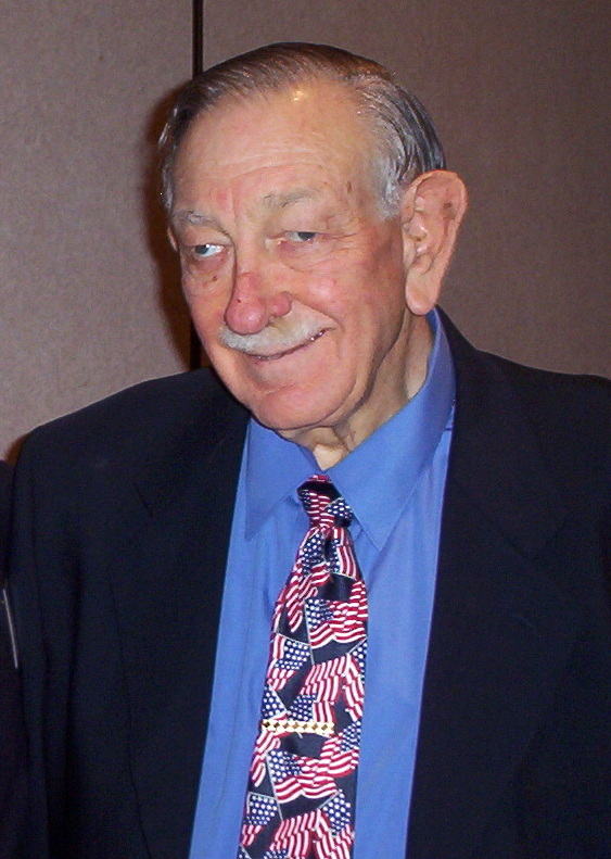 Nancy Shearer Spirkoff, William Blake Paul, and William Kennedy Shearer